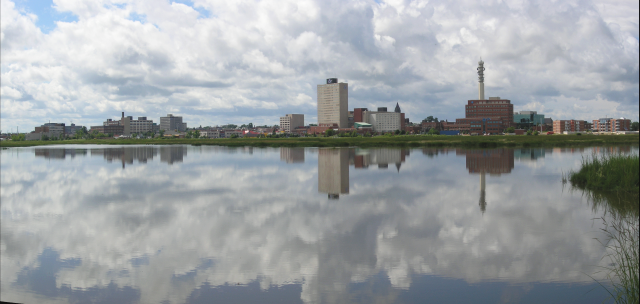 Panoramic view of Moncton, New Brunswick, Canada taken from Riverview.